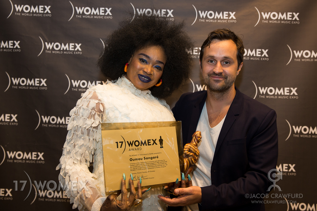 Oumou Sangaré WOMEX 17 Award Ceremony, by Jacob Crawfurd - 1